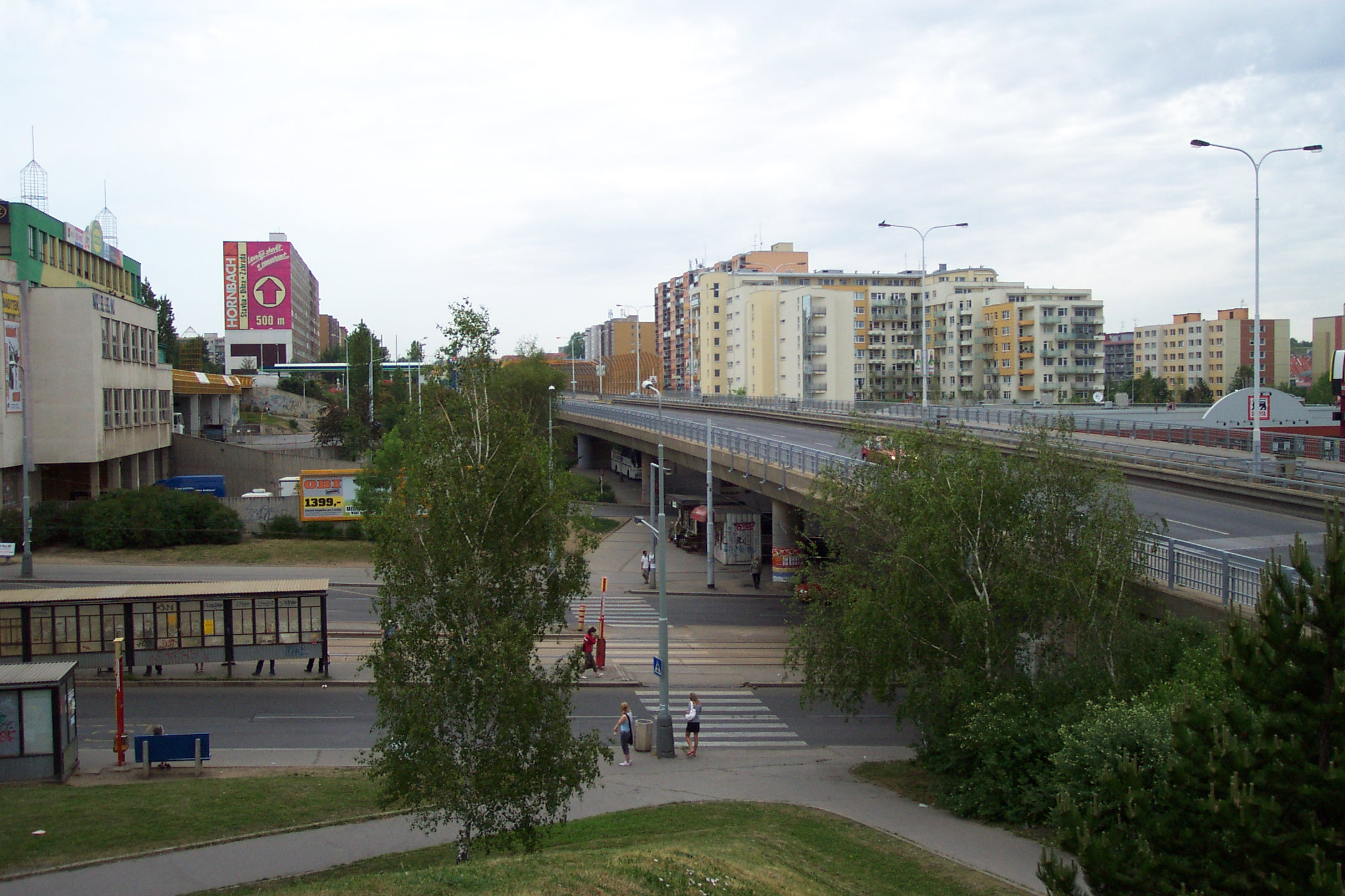 Prague esteate Řepy